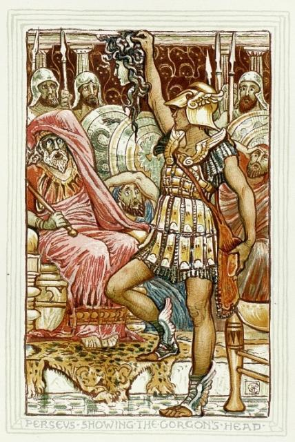 (Removed after reusableart request.)